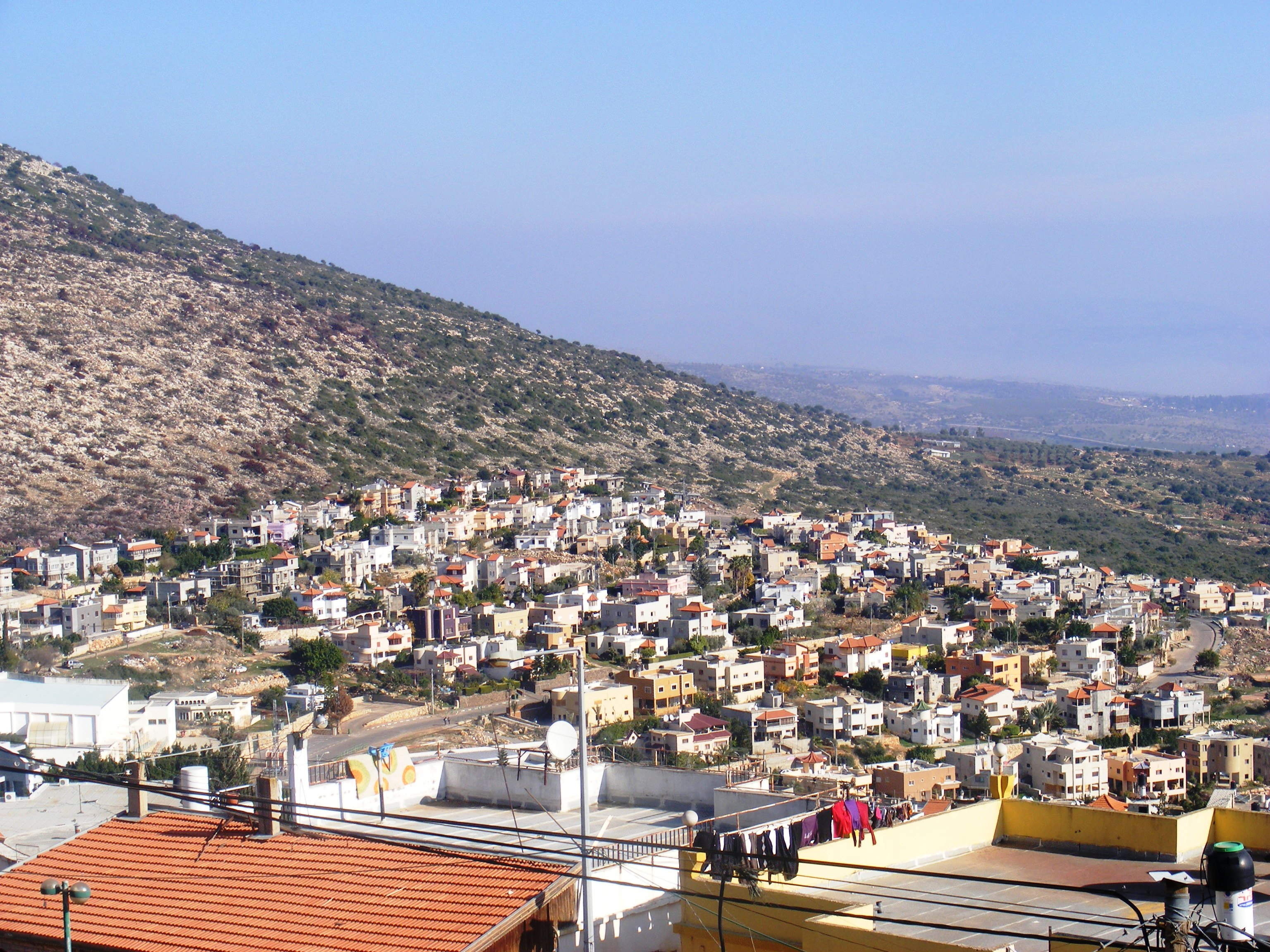 Cities in Israel